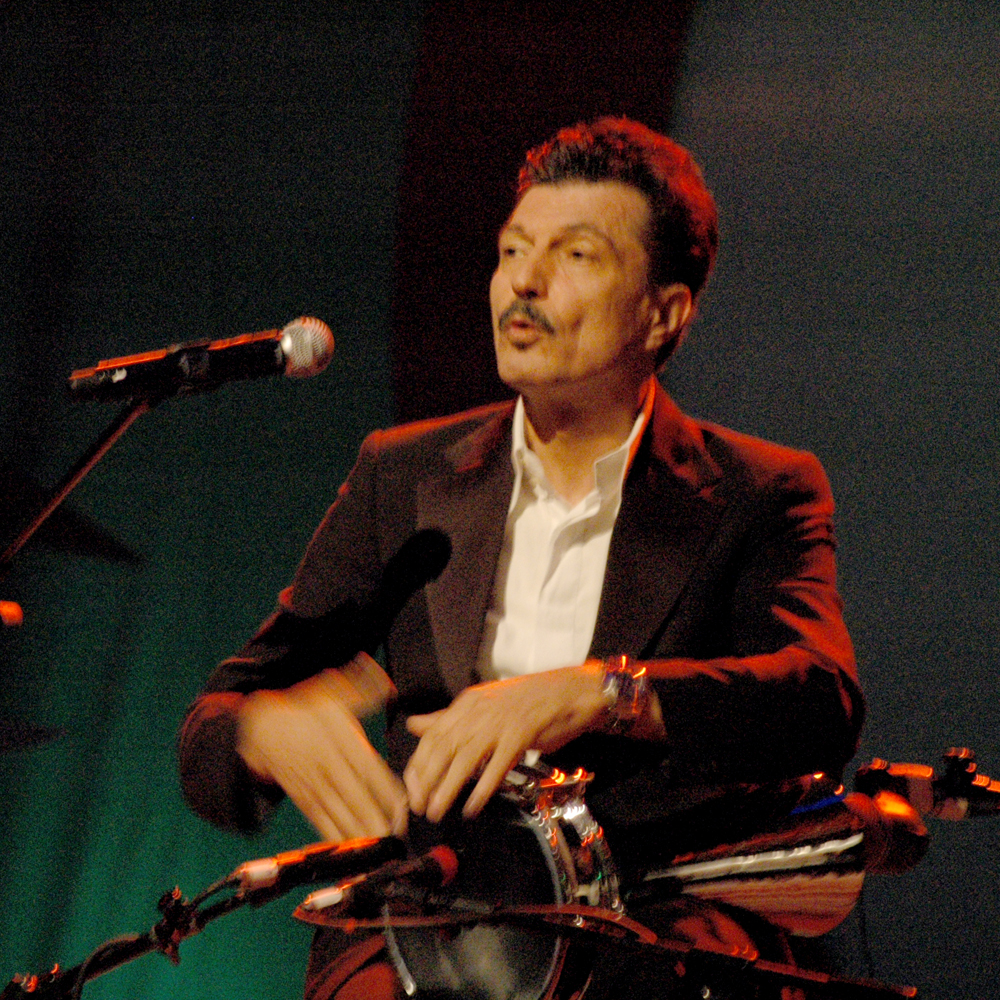 Turkish musician Burhan Öcal performing in Warszawa, Poland during the 4th Warsaw Festival